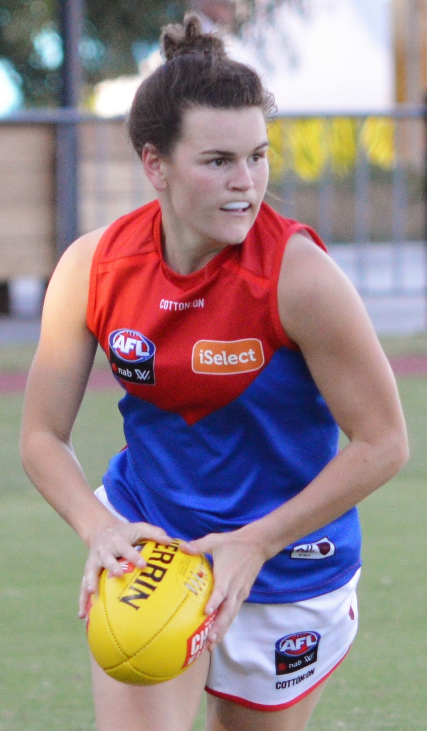 Lily Mithen at the AFL Women's practice match between Collingwood and Melbourne in January 2018